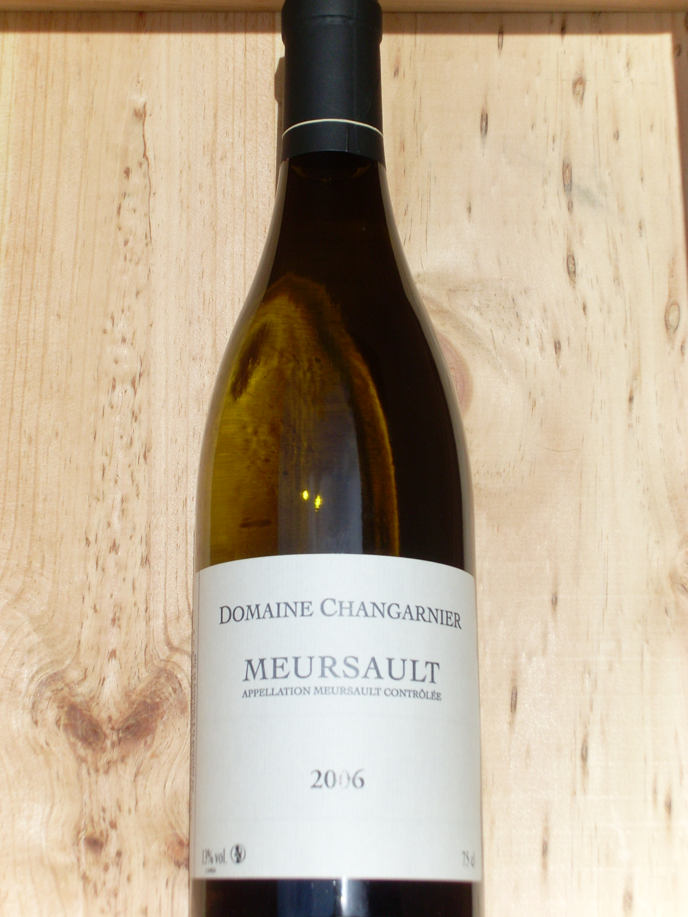 White Burgundy wine made from Chardonnay in the Meursault region of France